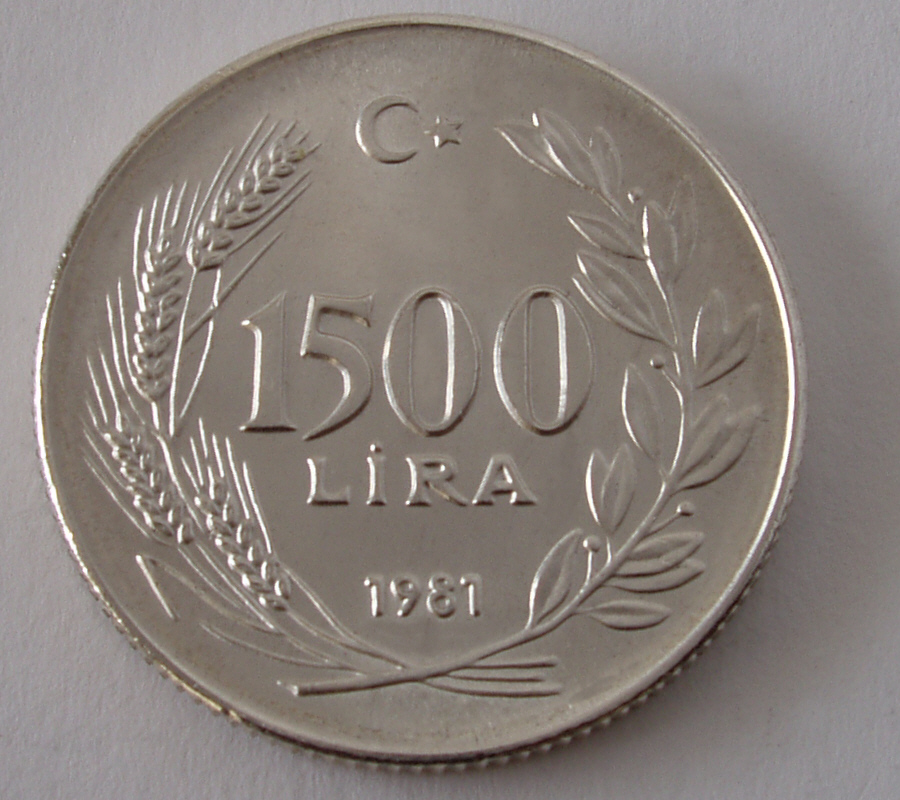 Turkey, 1500 Lira, 1981, front, d=30 mm, 925/1000 silver